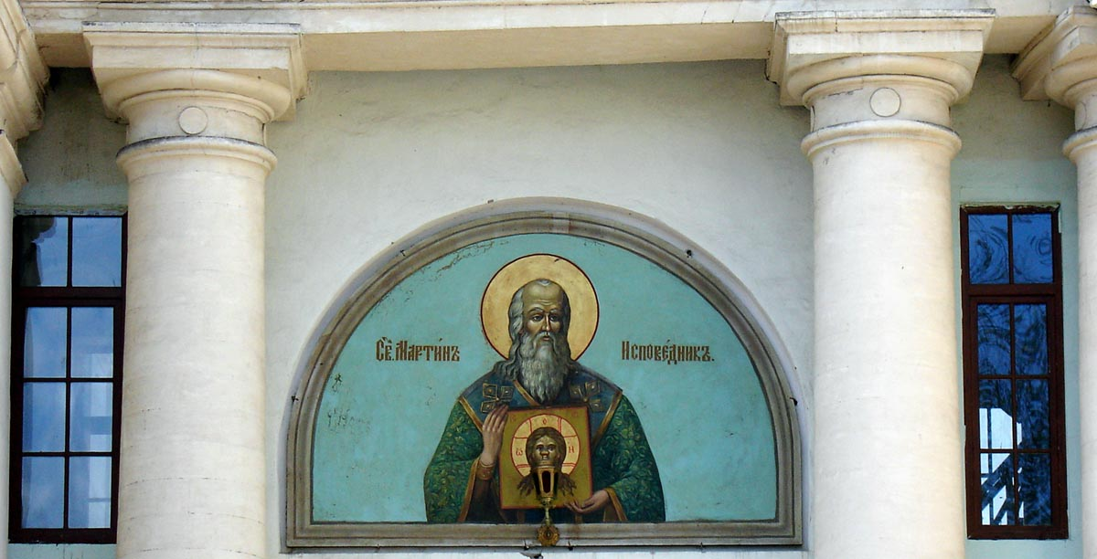 Church of St. Martin the Confessor, Moscow, 1793-1806, by Roman Kazakov. Image of St. Martin, 1800s